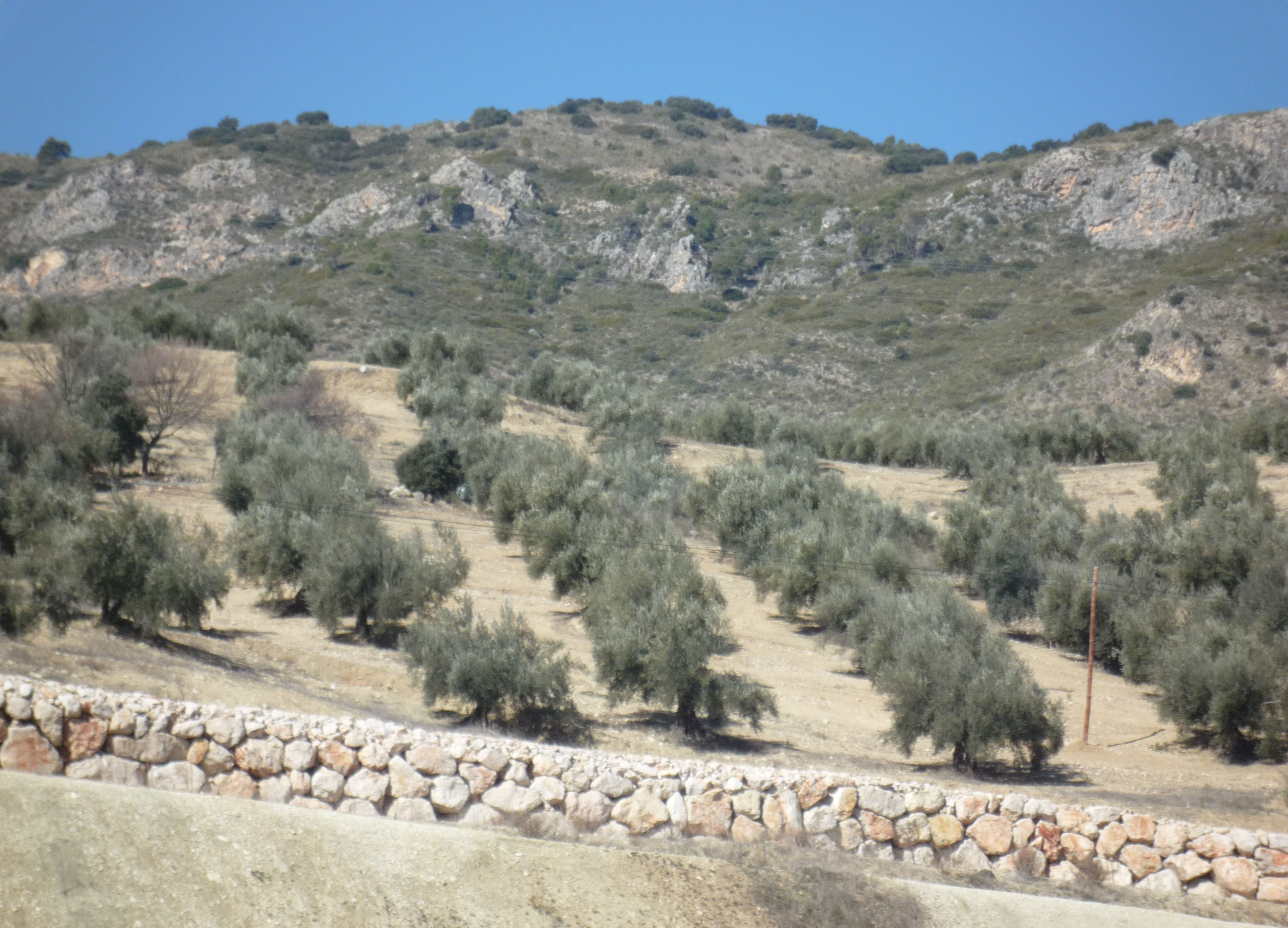 The olive tree capital of Spain